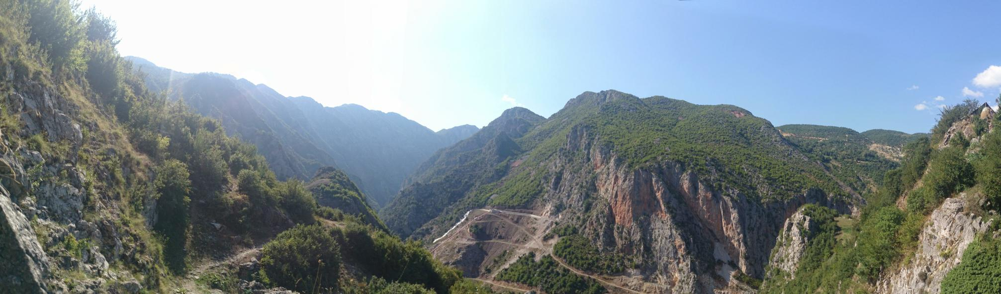 Canyon bellow Peshk village, Martanesh